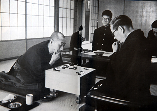 10th match of the jubango between Go Seigen (left) e Kitani Minoru (right) at Kamakura.